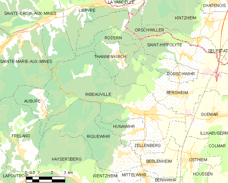 Map of French municipality